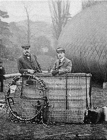 Jacques Faure et Hubert Latham, photographiés dans leur nacelle avant leur voyage aérien de Londres à Paris.